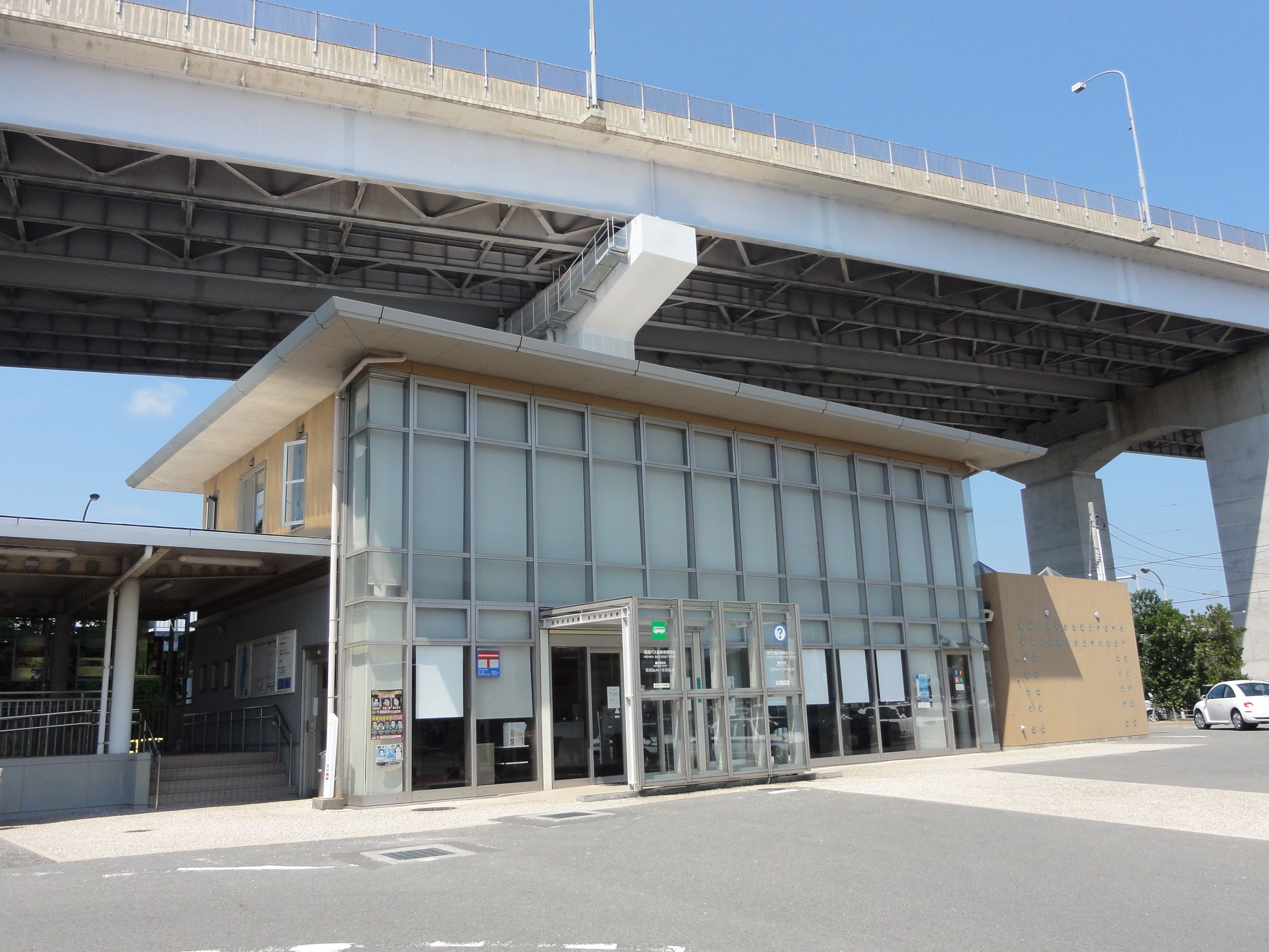 Naruto City Tourist Information Centre (station for the slope car Slopy for Highway Naruto Bus Stop)